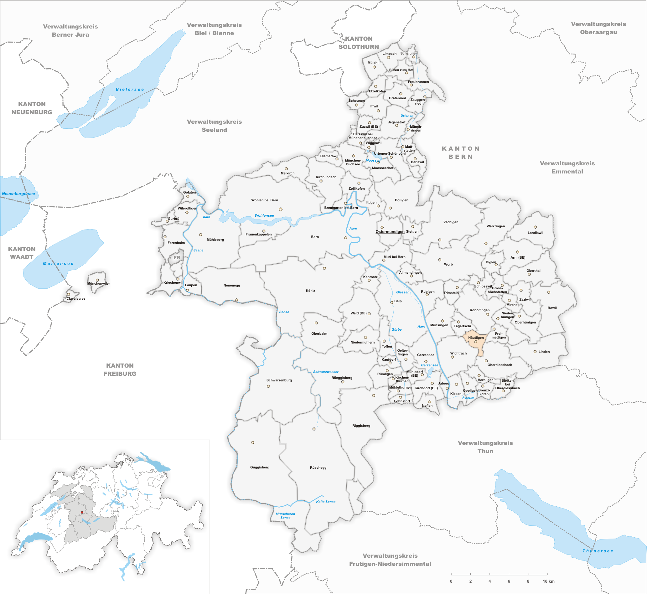 Municipality Häutligen